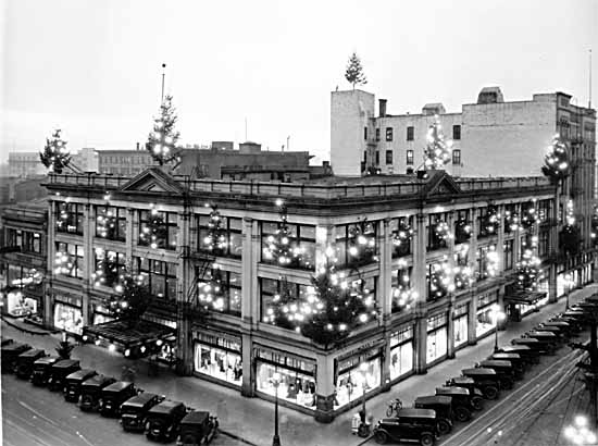 The Spencer's department store decorated for Christmas. Victoria, British Columbia, Canada.